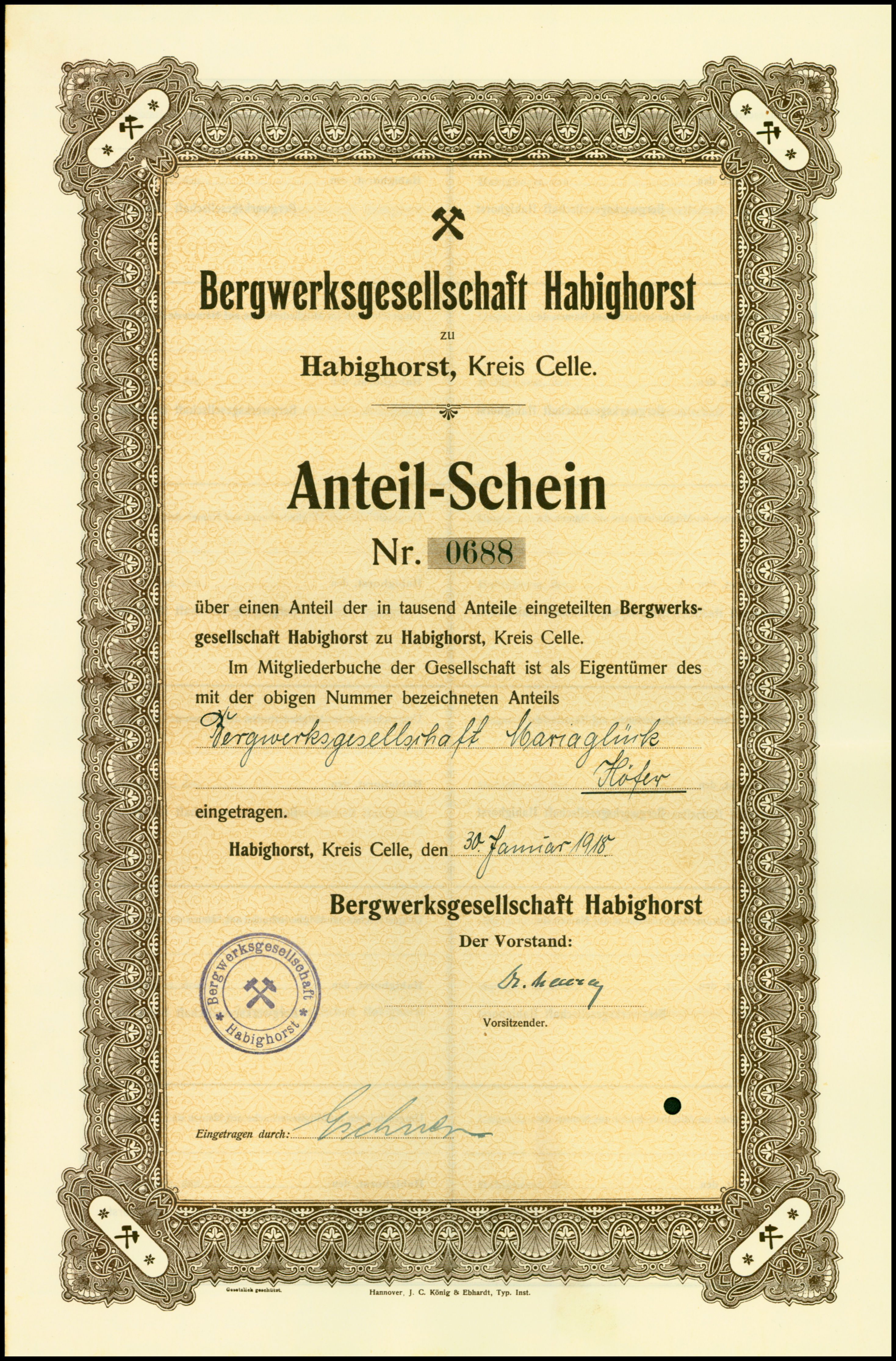 Participation certificate of the Bergwerksgesellschaft Habighorst, issued 30. January 1918